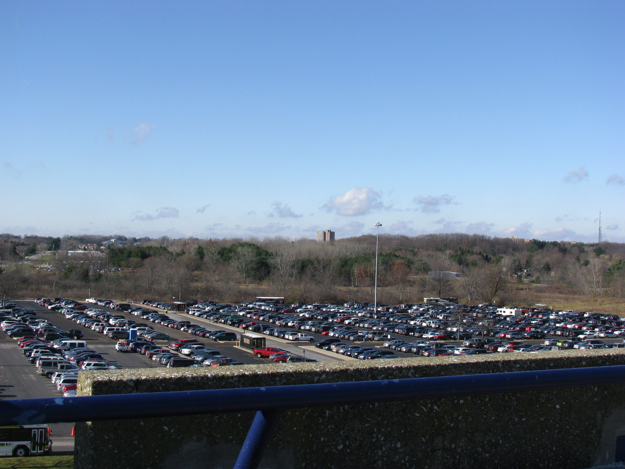 View looking west-northwest from the top of Dix Stadium in Kent, Ohio toward the center of the Kent State University campus. The tall building in the center is the 12-story main library, with some of the dorms visible on the right. The library is approximately 1.6 miles (2.5 km) from the stadium.